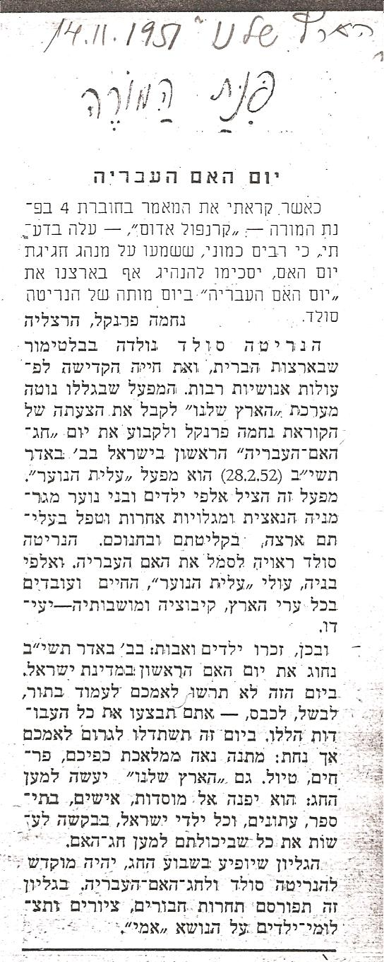 Teacher corner Haaretz Shelano 14.11.1951